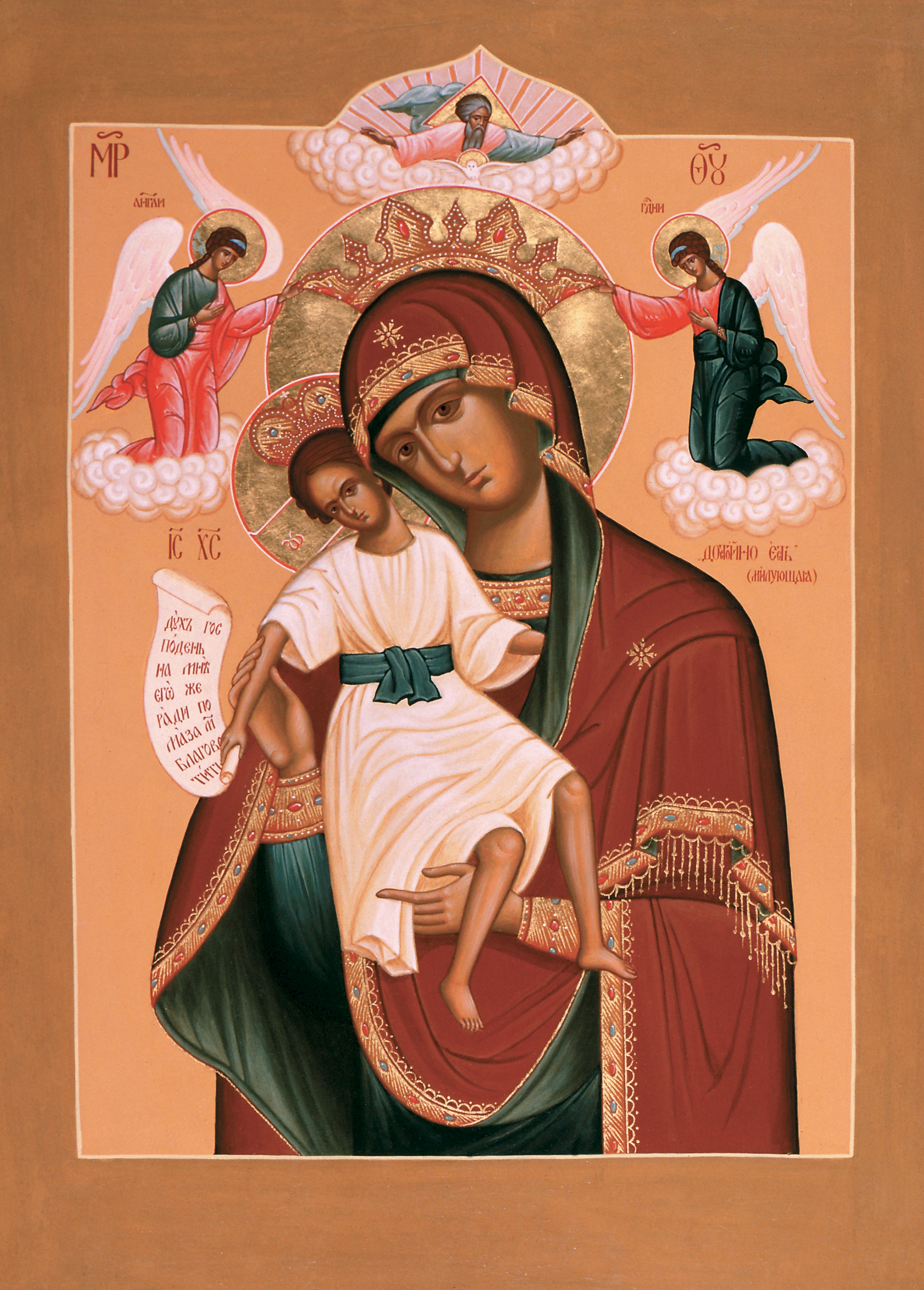 Axion estin icon, 19th century